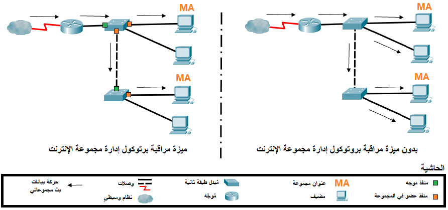 An Example of the effect of IGMP snooping on the traffic in a LAN.